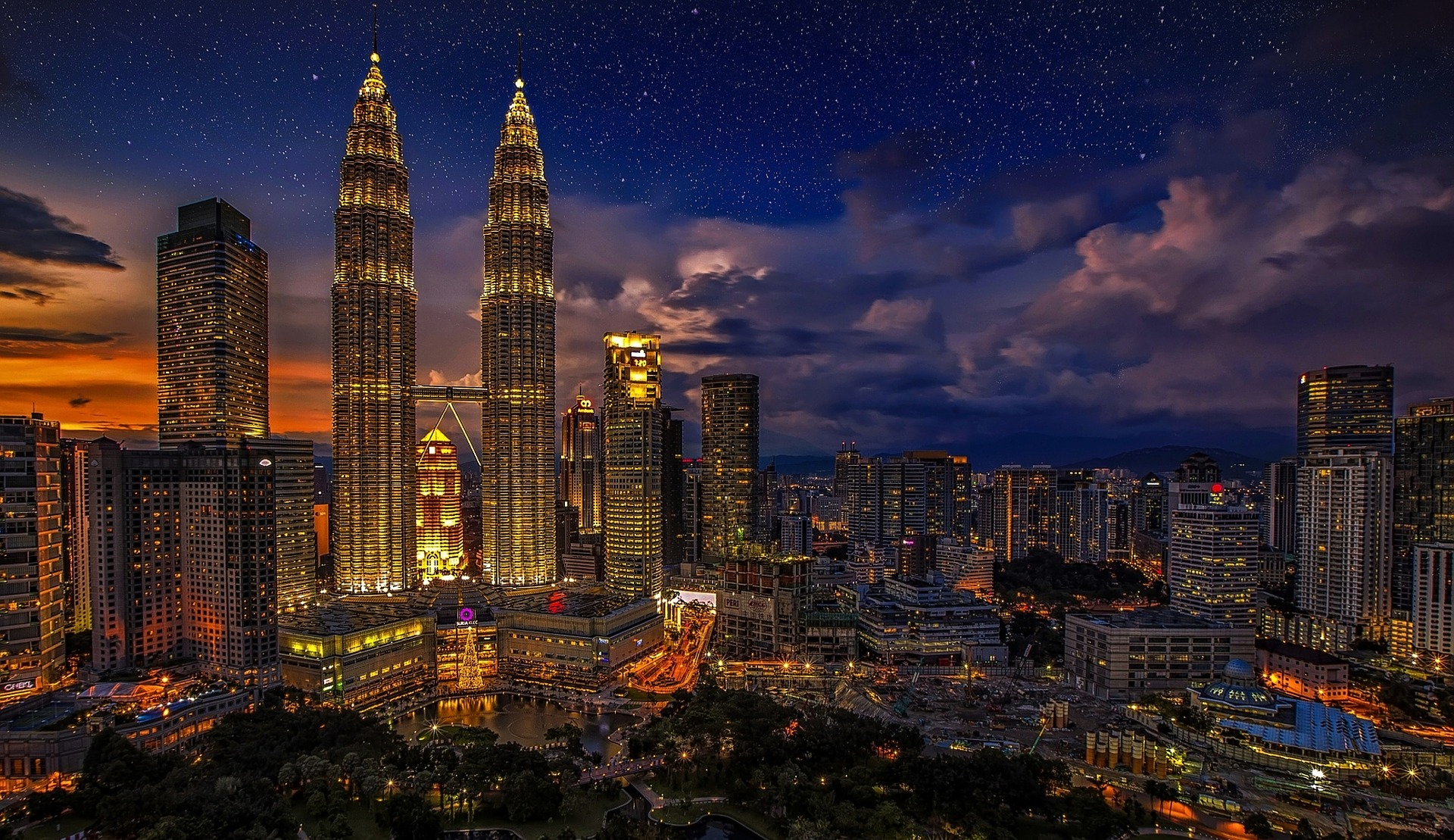 Kuala Lumpur Skyline at dusk